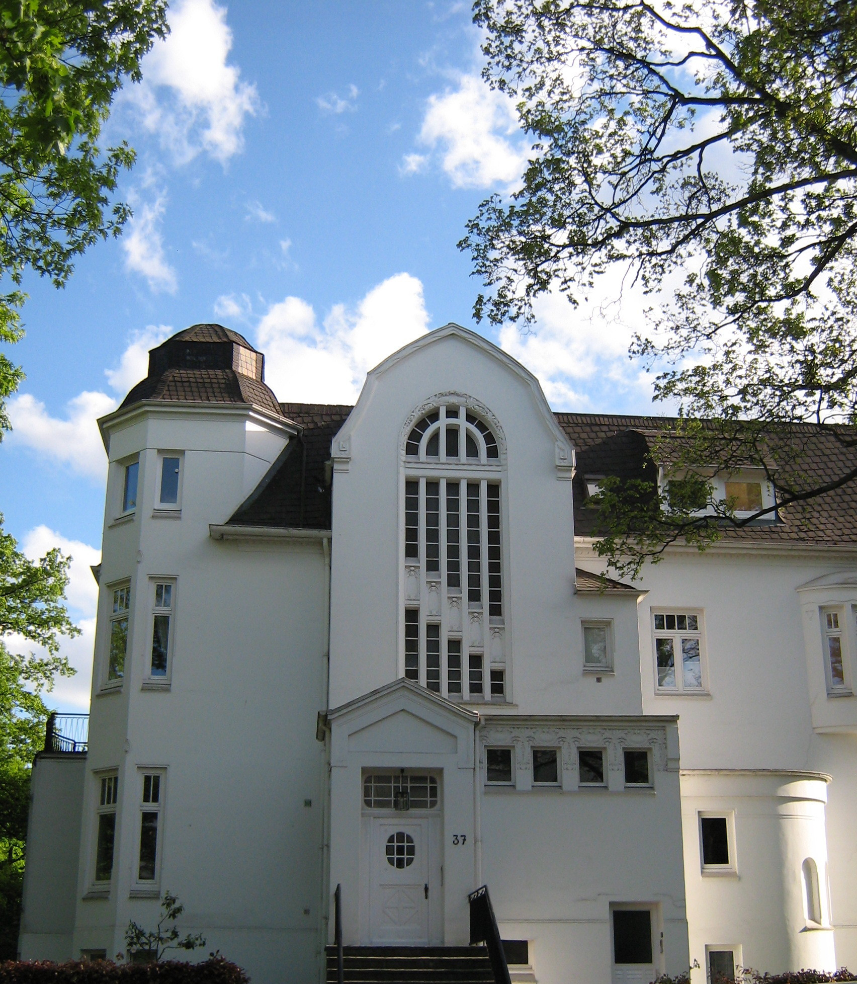 residential building in Hamburg-Havestehude. 1935-1939 the building was rented by the Sephardic Community an use as their last Synagogue in Hamburg before the Holocaust.